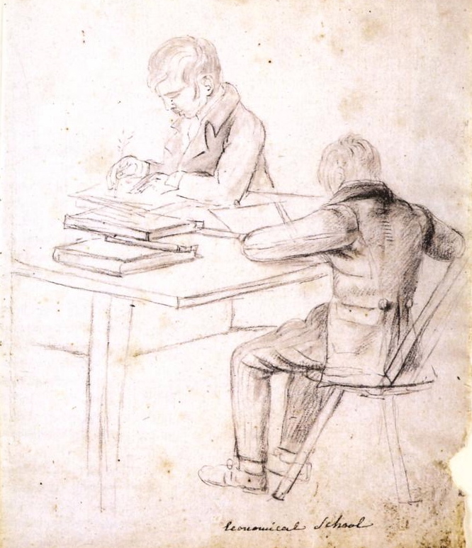 New Orleans. Scene at École Économique, or the Economical School, 1810 - 1814. Graphite drawing by Baroness Hyde de Neuville, the wife of the school's benefactor, Jean-Guillaume Hyde de Neuville. The Hyde de Neuvilles were refugees in New Orleans from the revolution in St. Domingue, and set up the school for the benifit of fellow emigres in 1809.